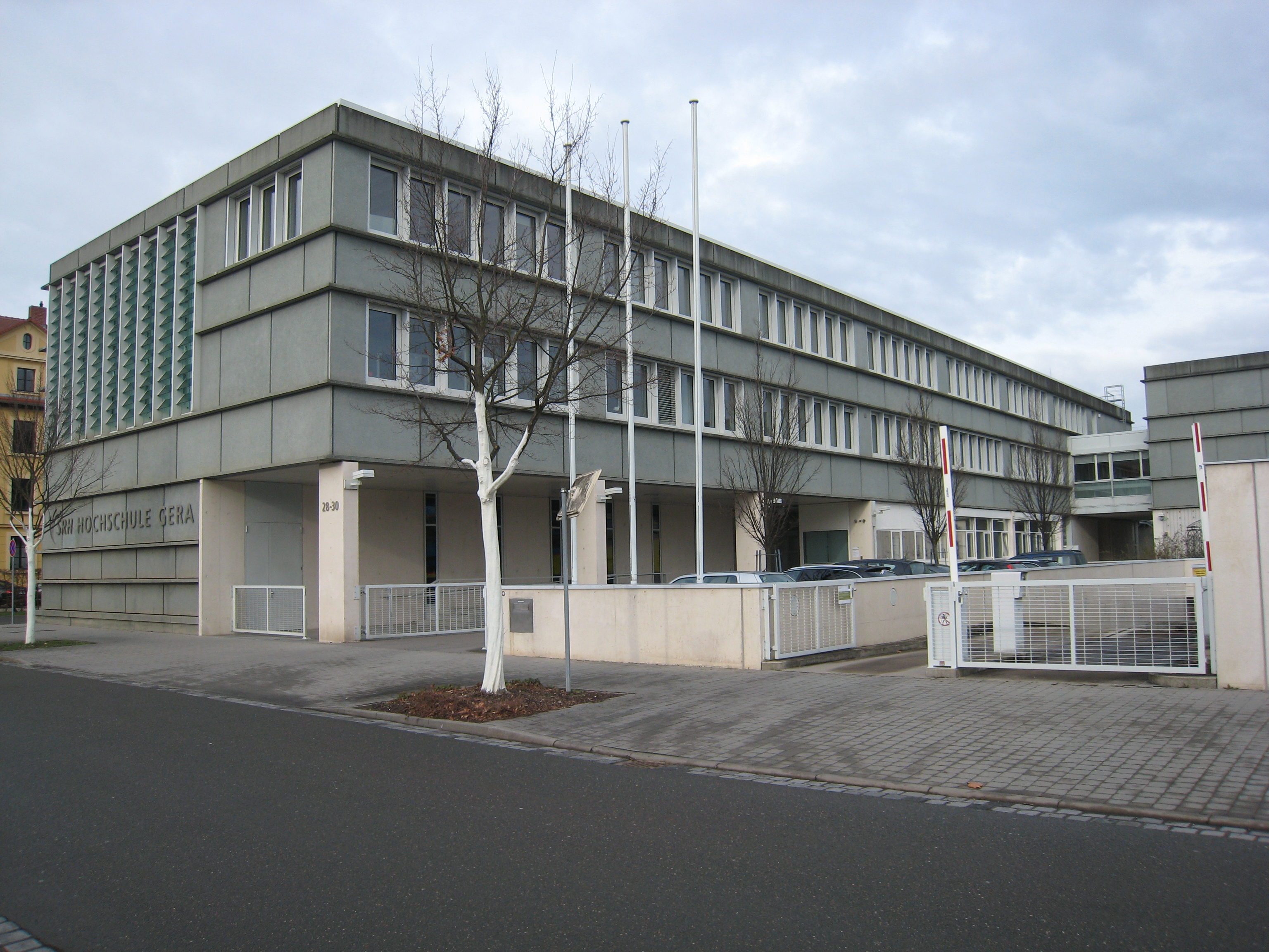 University for Health Care, Gera, Neue Straße 28-30